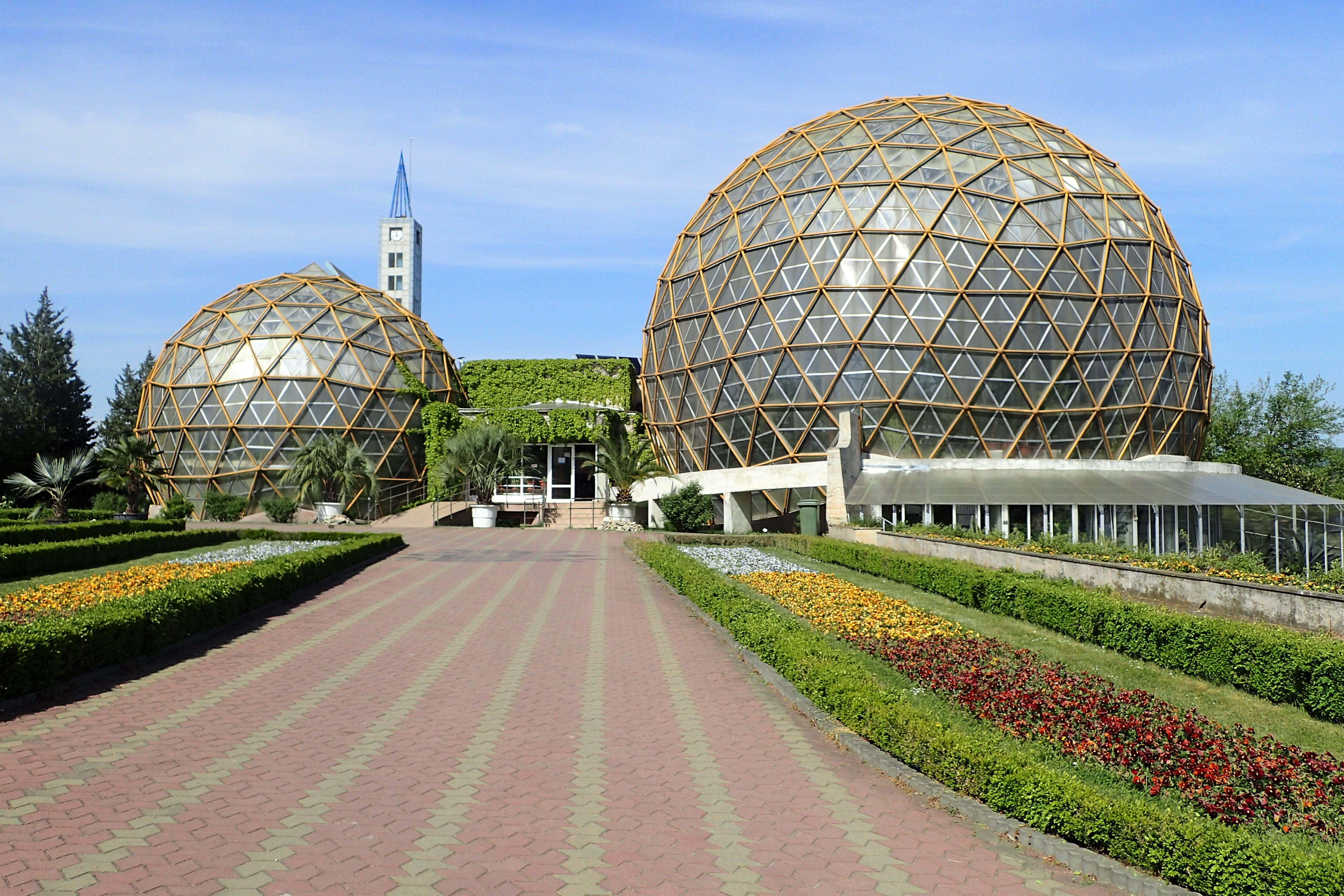 Jibou Botanical Garden